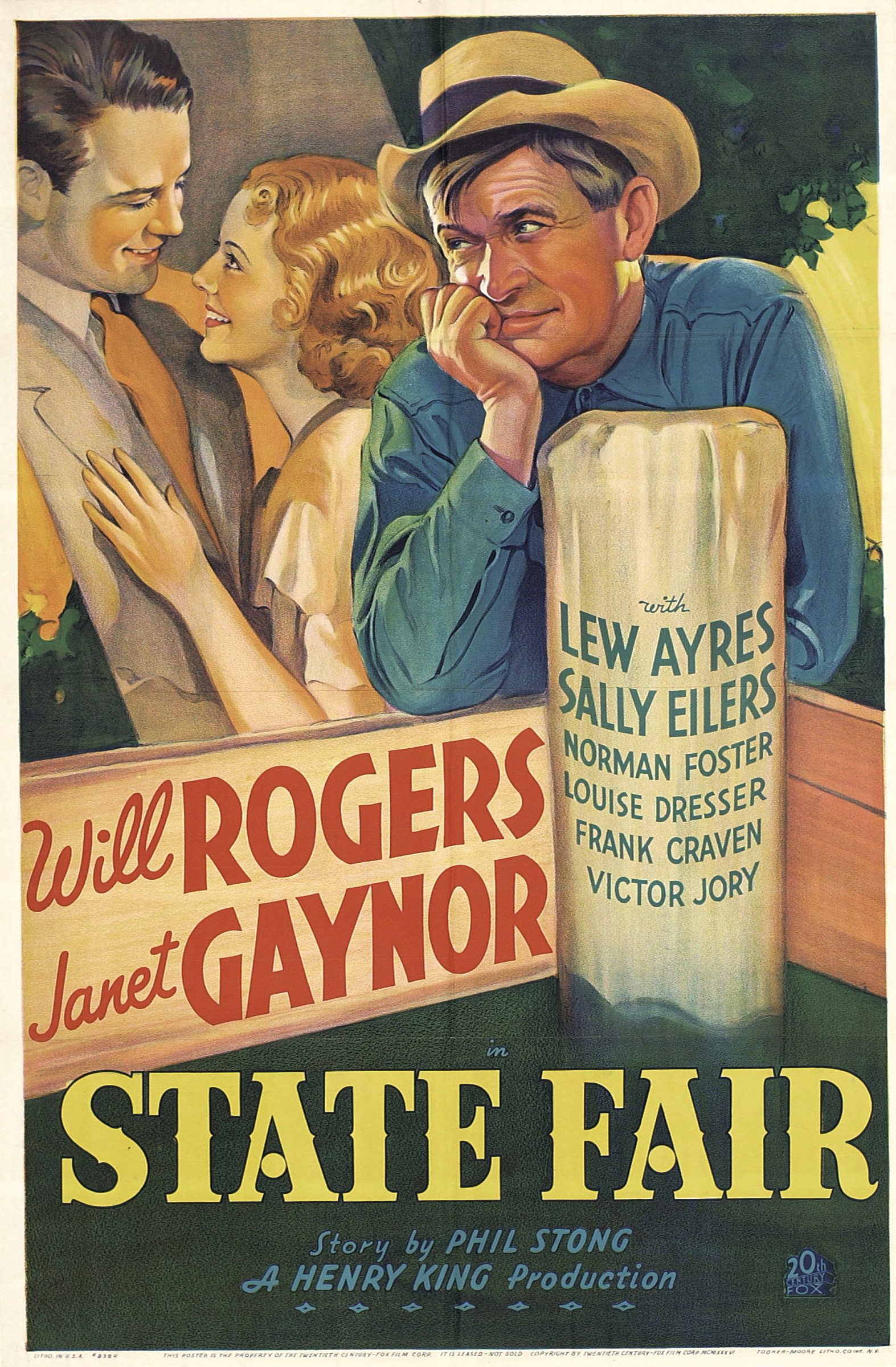 Theatrical release poster for the 1933 film State Fair.